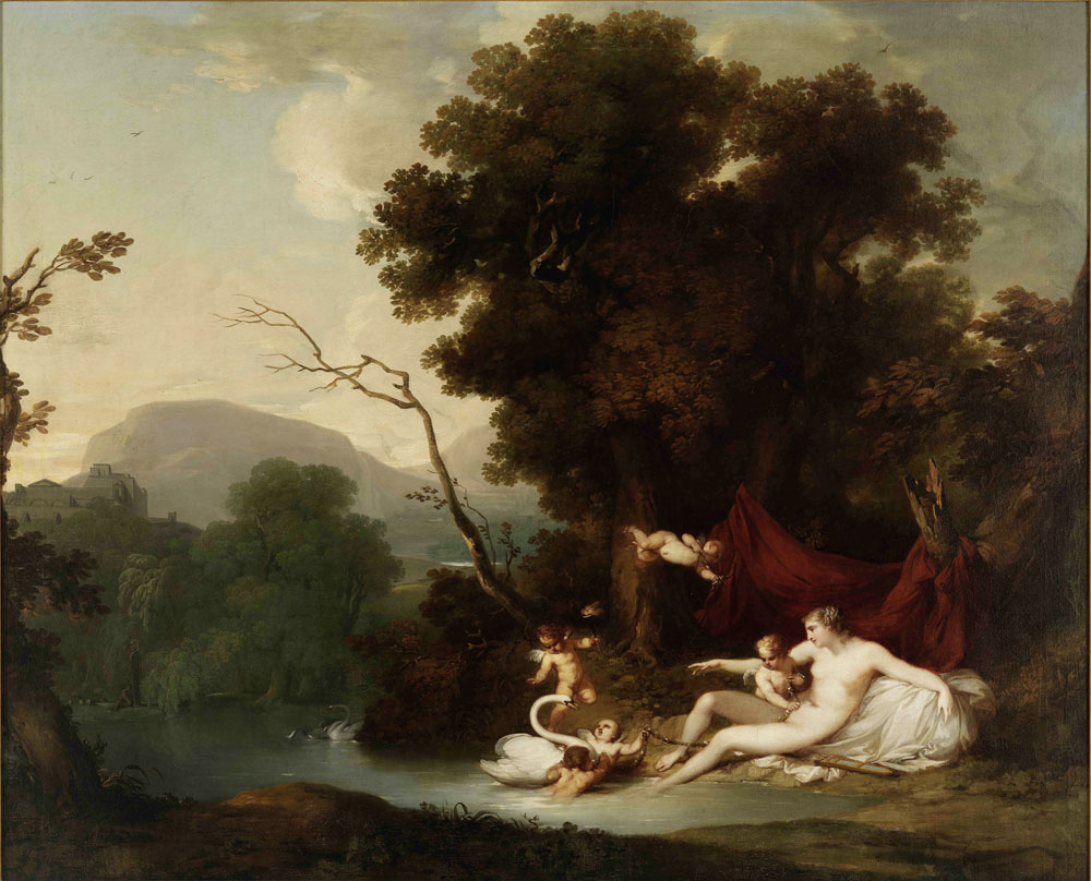 "Leda and the Swan" (1798), by Vieira Portuense.